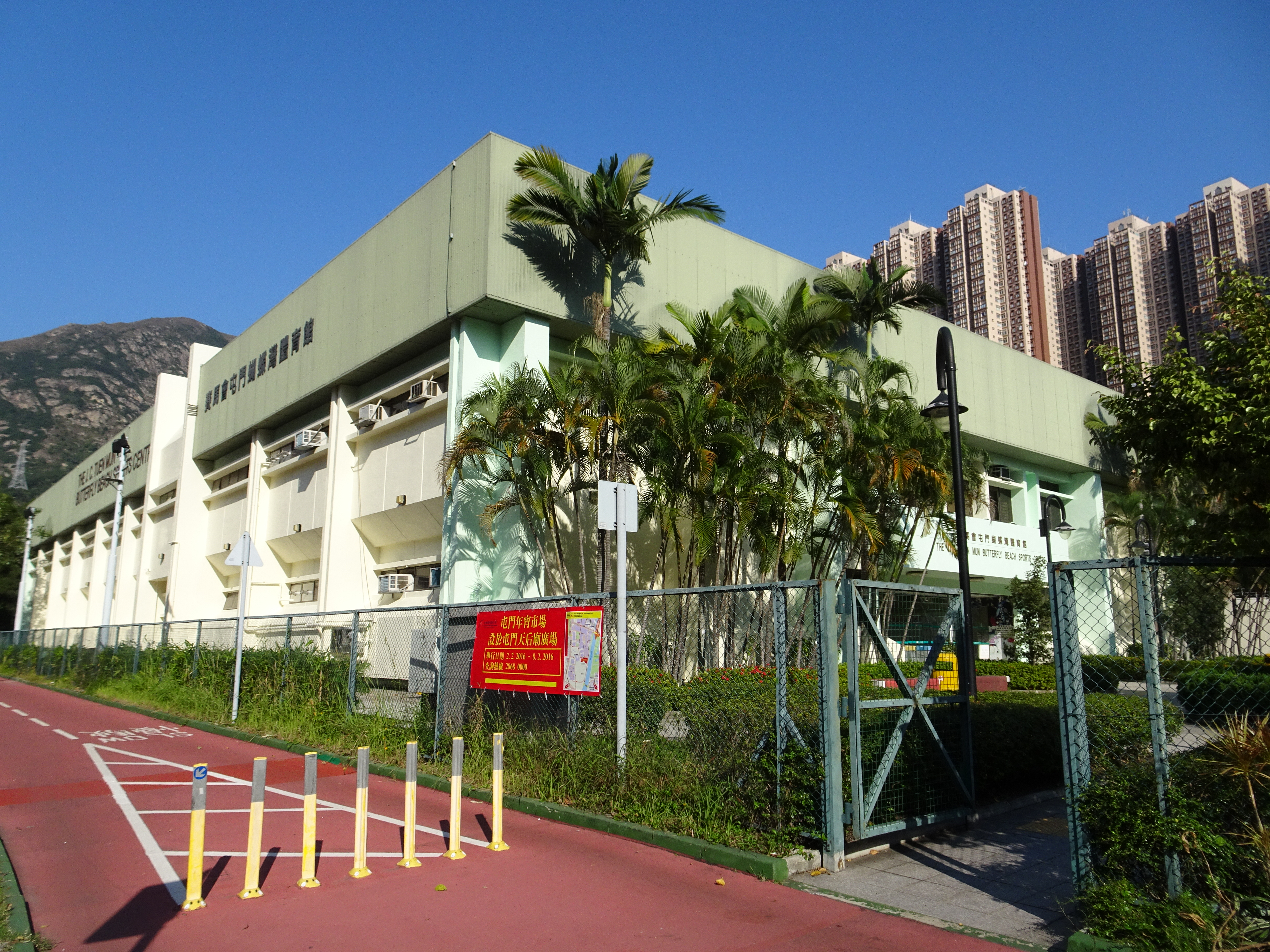 The Jockey Club Tuen Mun Butterfly Beach Sports Centre in Tuen Mun, Hong Kong.